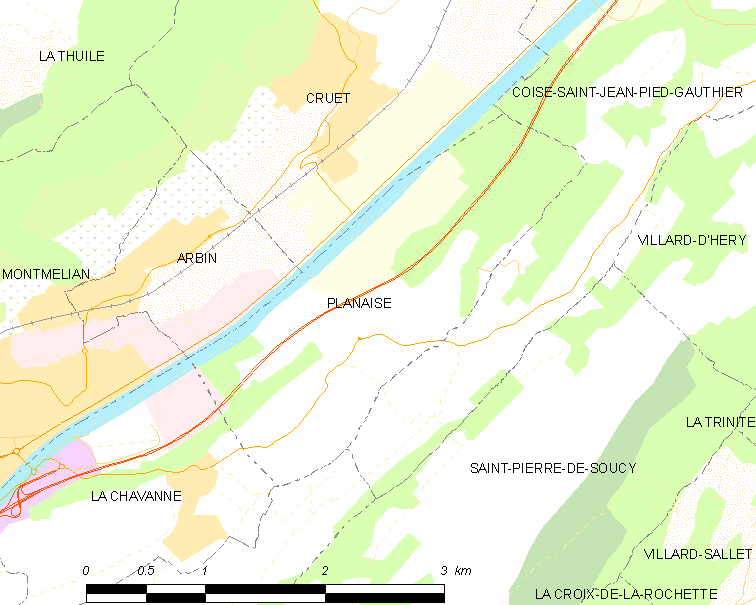 Map of French municipality